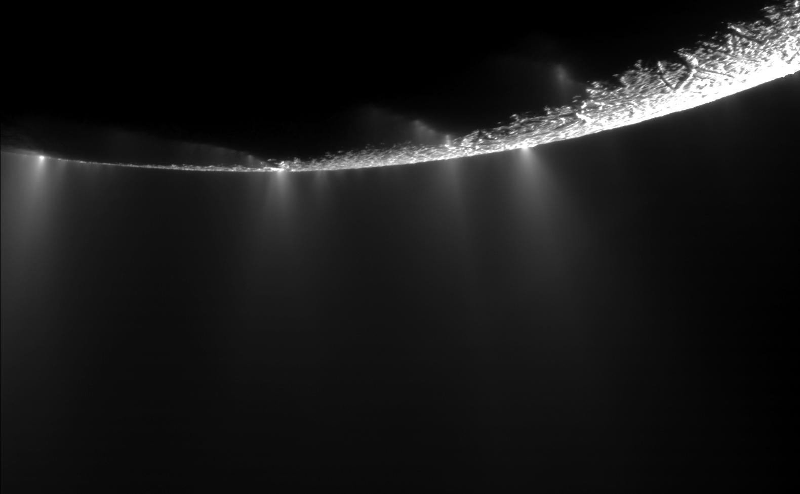 Dramatic plumes, both large and small, spray water ice out from many locations along the famed "tiger stripes" near the south pole of Saturn's moon Enceladus. The tiger stripes are fissures that spray icy particles, water vapor and organic compounds. More than 30 individual jets of different sizes can be seen in this image and more than 20 of them had not been identified before. At least one jet spouting prominently in previous images now appears less powerful. This mosaic was created from two high-resolution images that were captured by the narrow-angle camera when NASA's Cassini spacecraft flew past Enceladus and through the jets on Nov. 21, 2009. (For other images captured during the same flyby, see PIA11686 and PIA11687). Imaging the jets over time will allow Cassini scientists to study the consistency of their activity.